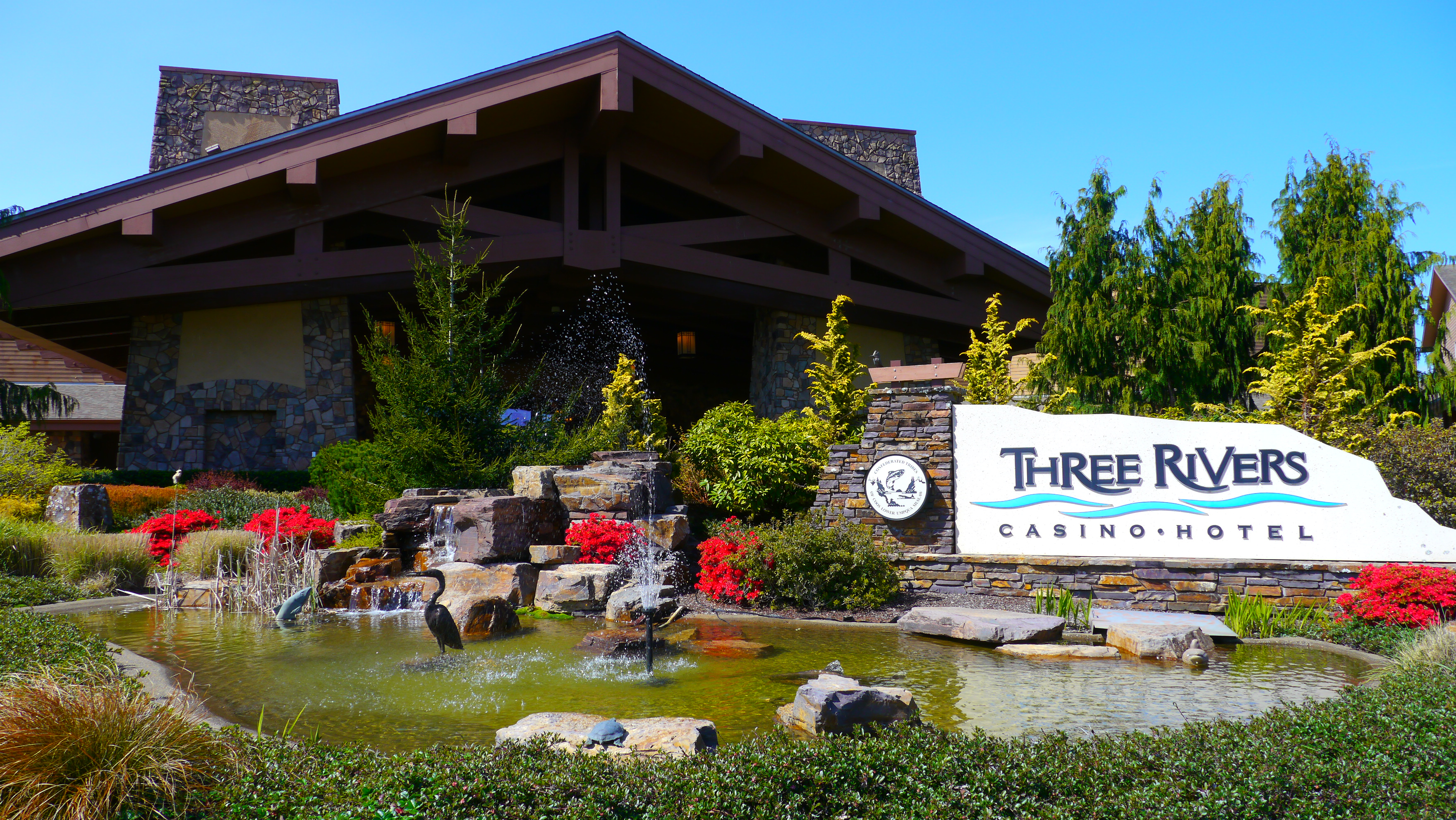 Three Rivers Casino is located off of Highway 126 near Florence, Oregon. The pinwheels are Child Abuse Prevention Month. (